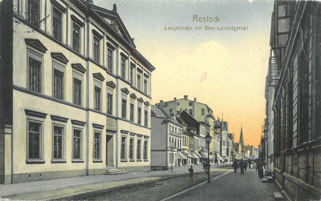 Rostock, Mecklenburg-Schwerin, Germany; Lange Straße, view eastwards with the spire of St. Peter's Church; before 1918; on the left the Oberlandesgericht Rostock, Lange Straße 65 / Badstüberstraße, built in 1880 and destroyed in a British air raid in 1942